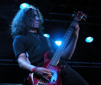 Guillermo Sánchez ("Buenos Aires", is a bass guitarist and singer of heavy metal and hard rock.